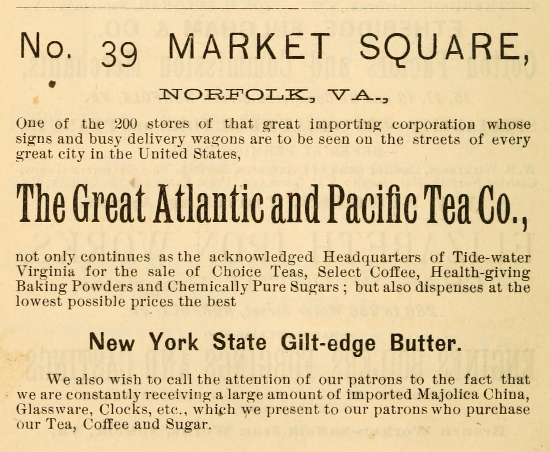 Advertisement from a Norfolk, Va. guidebook for the Great Atlantic and Pacific Tea Co. (cropped from original source page, which contained several other advertisements)